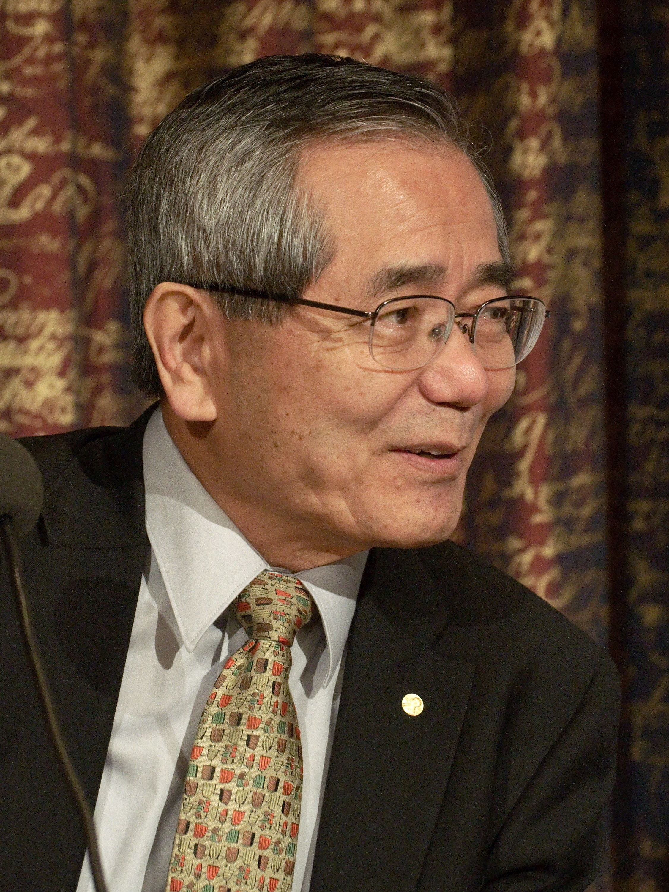 Nobel Prize 2010, press conference with the laureates of the Nobel prizes in chemistry and physics and the memorial prize in economic sciences at the KVA.